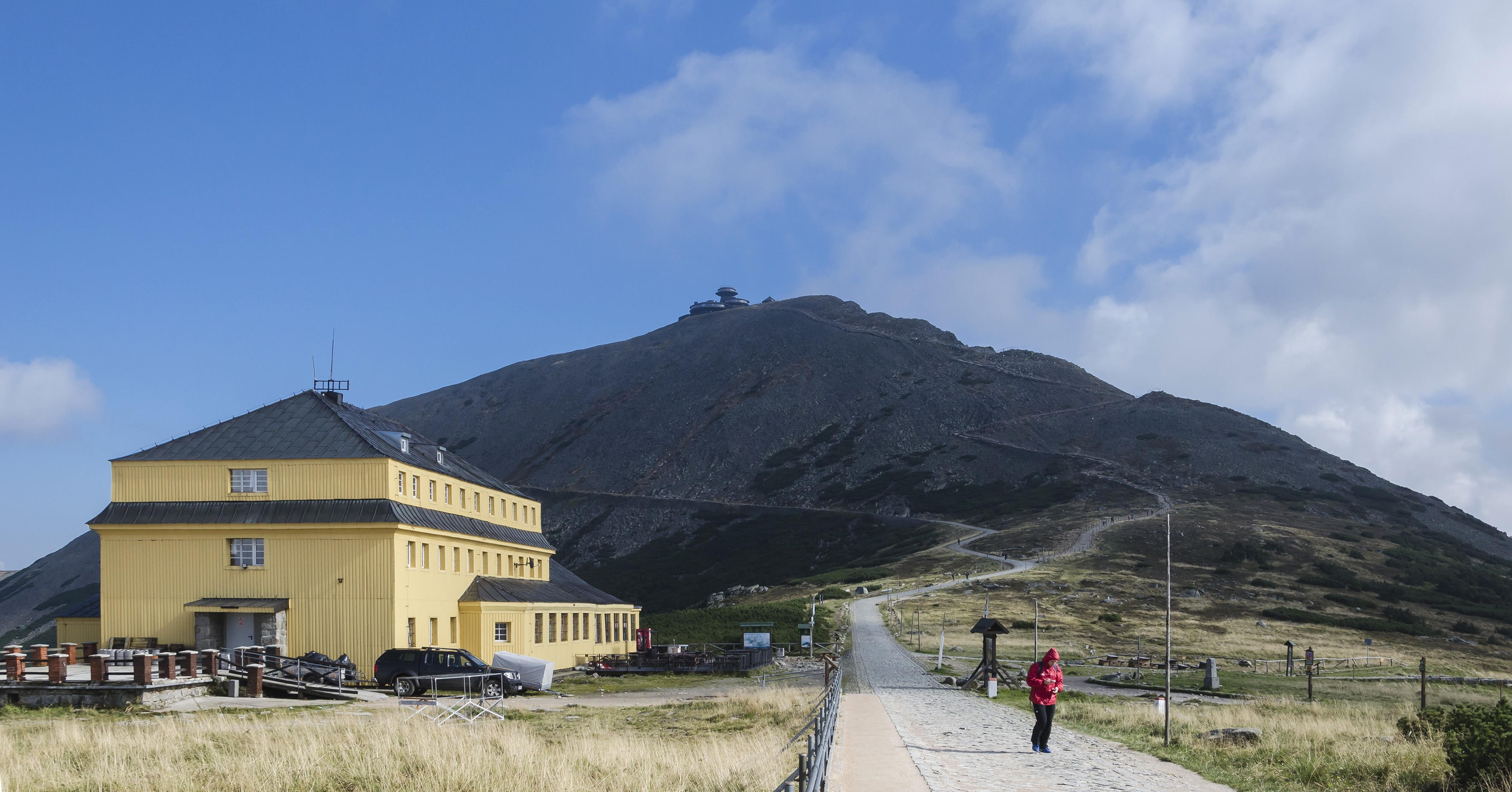 Sněžka, Karkonosze Mountains, Sudetes, on the left tourist shelter Śląski Dom